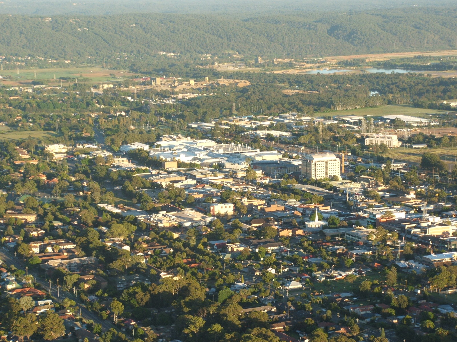 Aerial photograph of the Penrith CBD